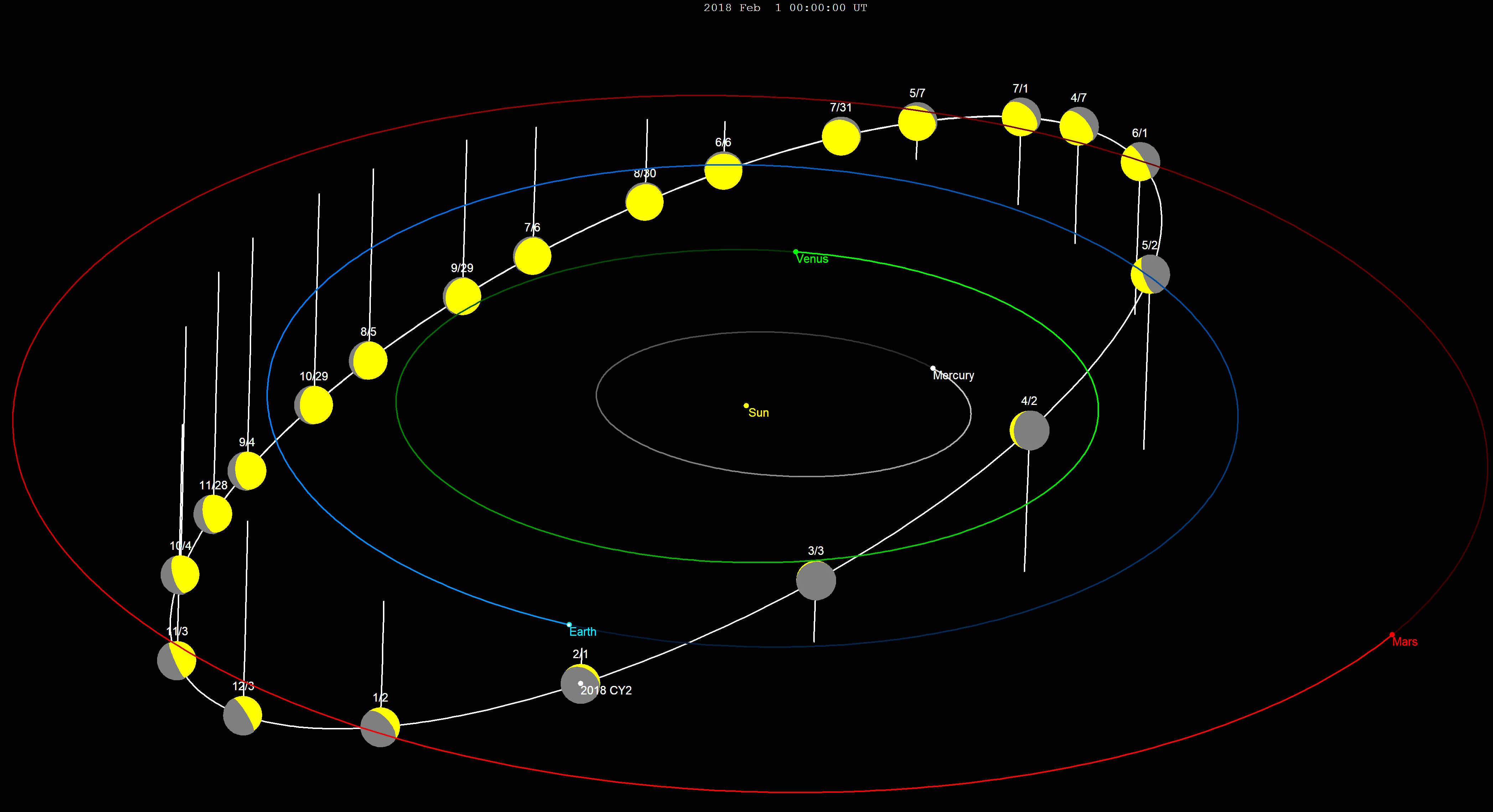 2018 CY2 asteroid path